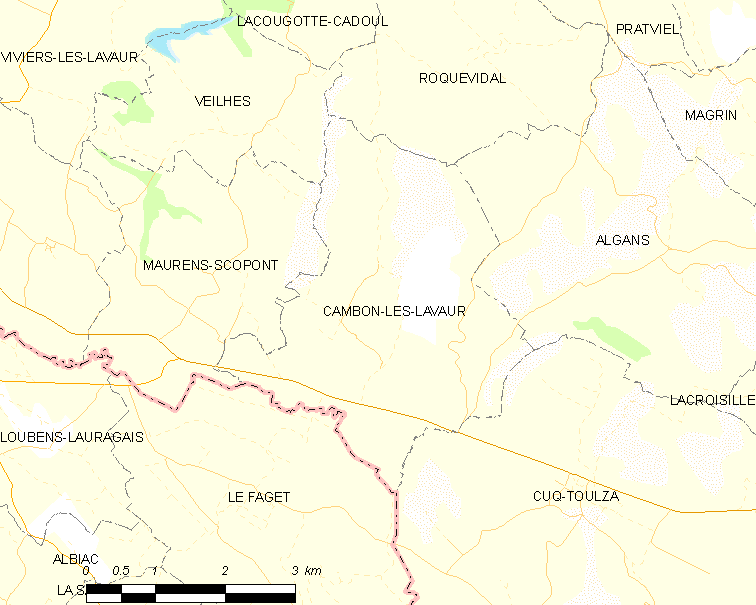 Map of French municipality Cambon-lès-Lavaur